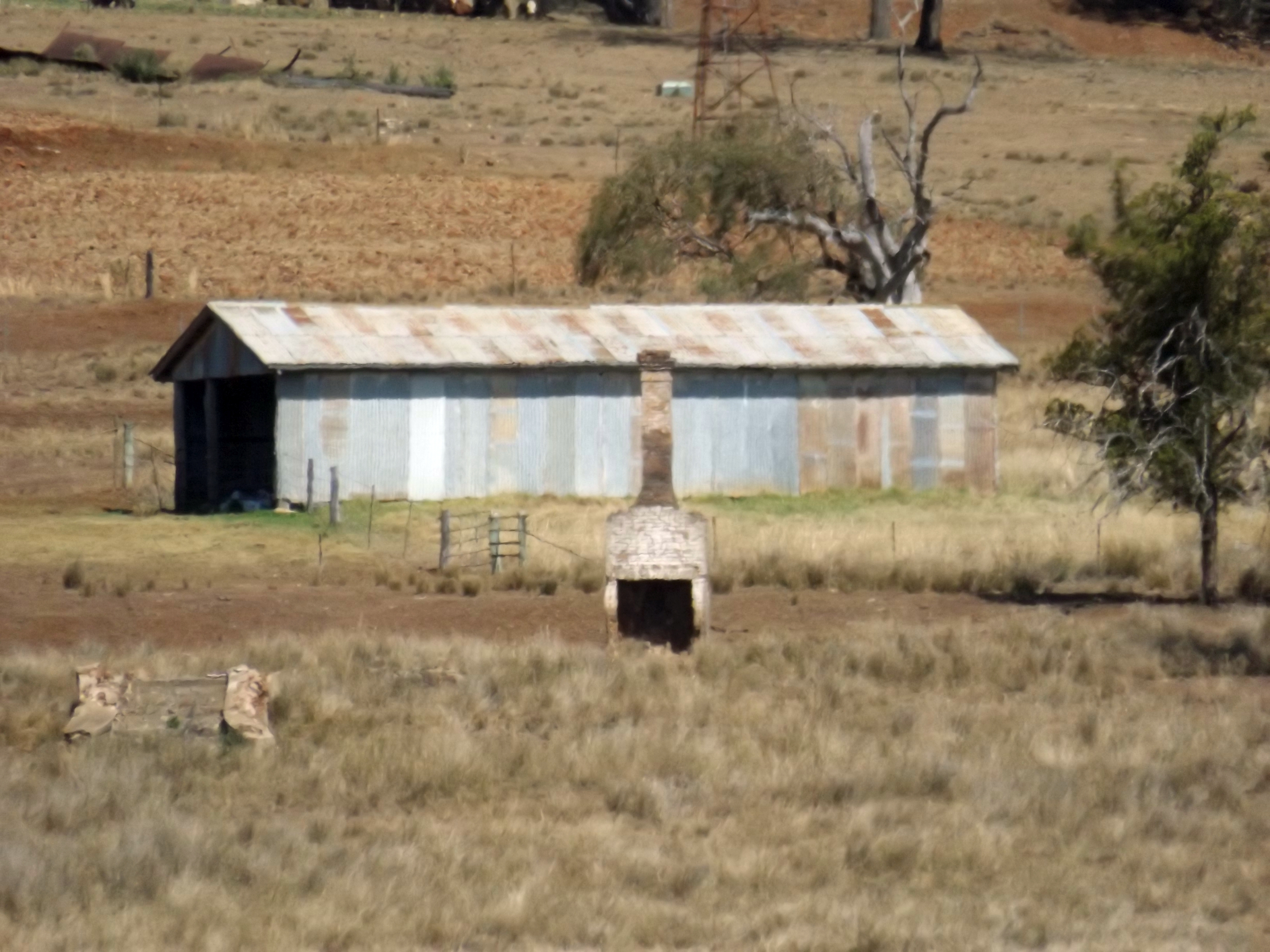 Photo of chimney at Eton Vale Homestead Ruins at Cambooya, Queensland, Australia.